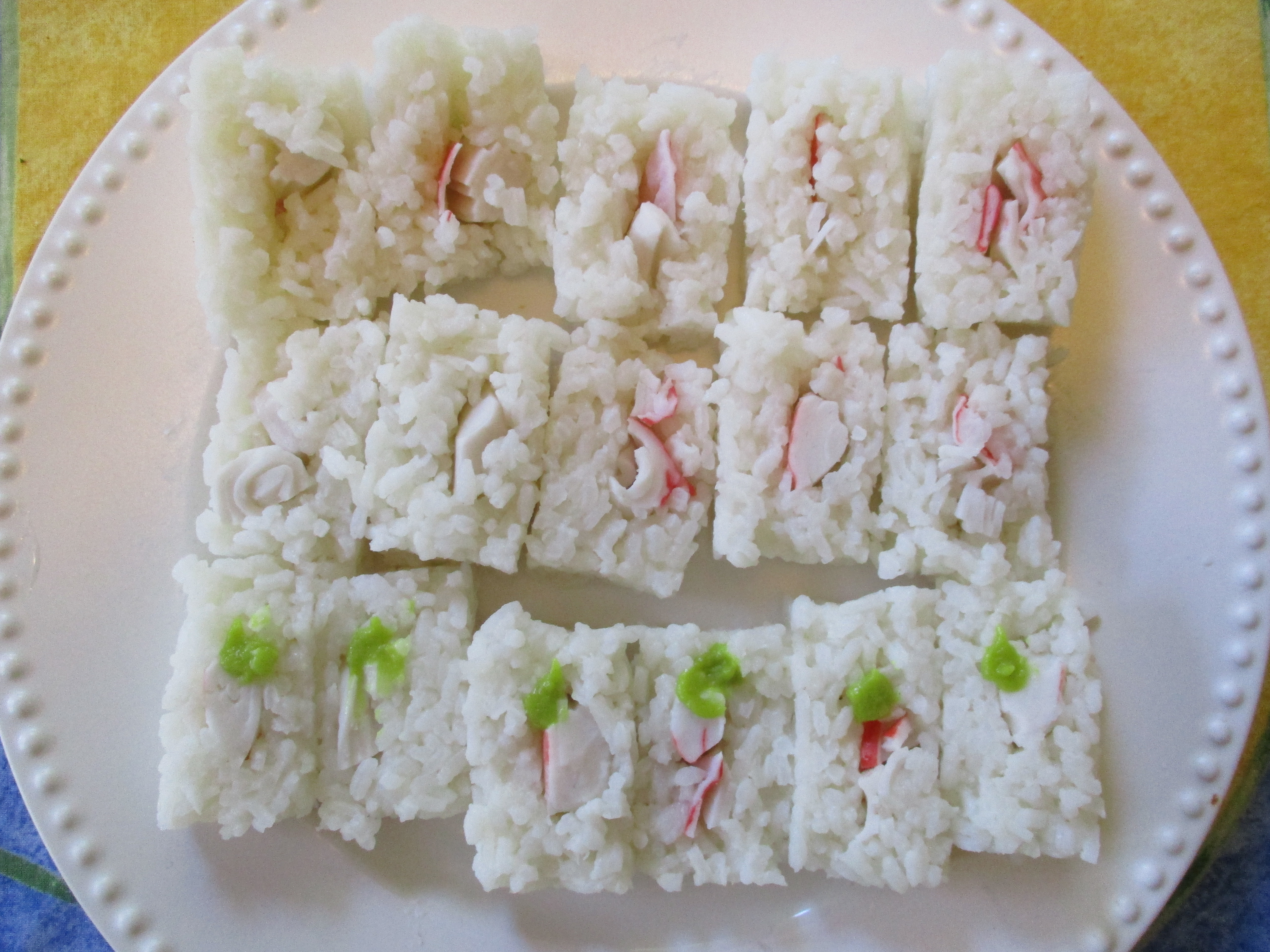 Made with the Maki Sushi Ki, Sushi Maker.